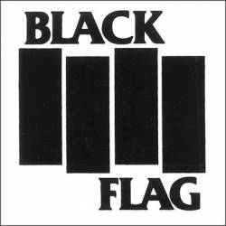 Black Flag (Band) logo